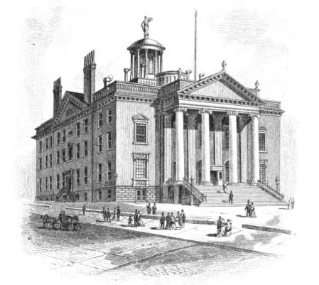 This is a drawing of the Old State Capitol in Albany, New York. This building housed the State Government from 1812 to 1878.